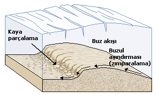 Diagram of glacial plucking and abrasion